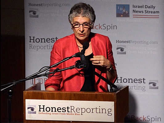 Melanie Phillips